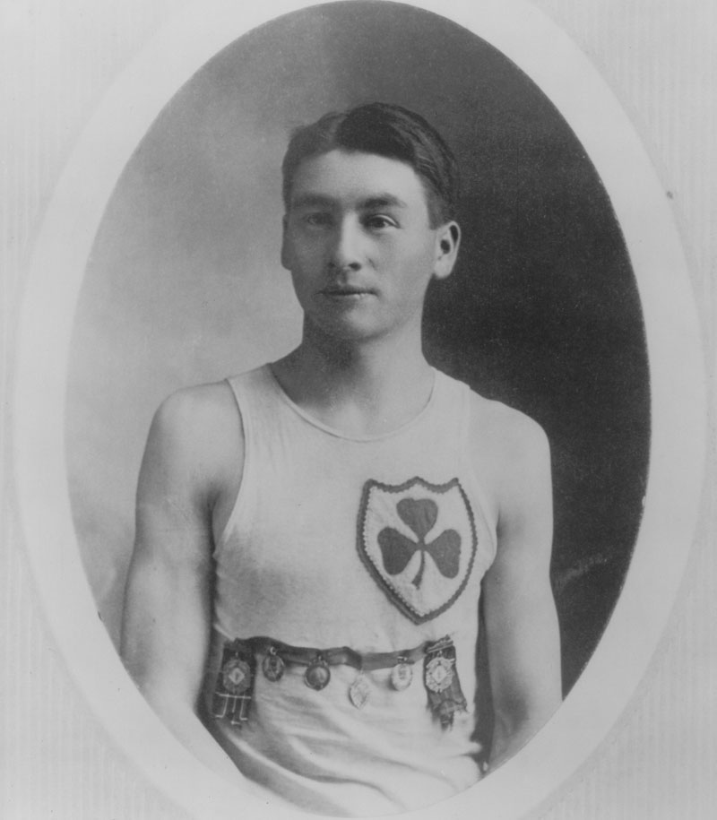 Portrait of Alex Decoteau as a representative of Alberta for the 1912 Olympic Games.